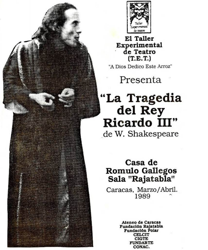 Programa de mano del Espectáculo de TET "Ricardo III" por la que obtuvieron la regencia del Teatro Luis Peraza